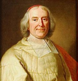 Cardinal de Fleury (1653-1743), after Hyacinthe Rigaud documentary photo of 18th century painting. One of many studio copies of Rigaud's portrait